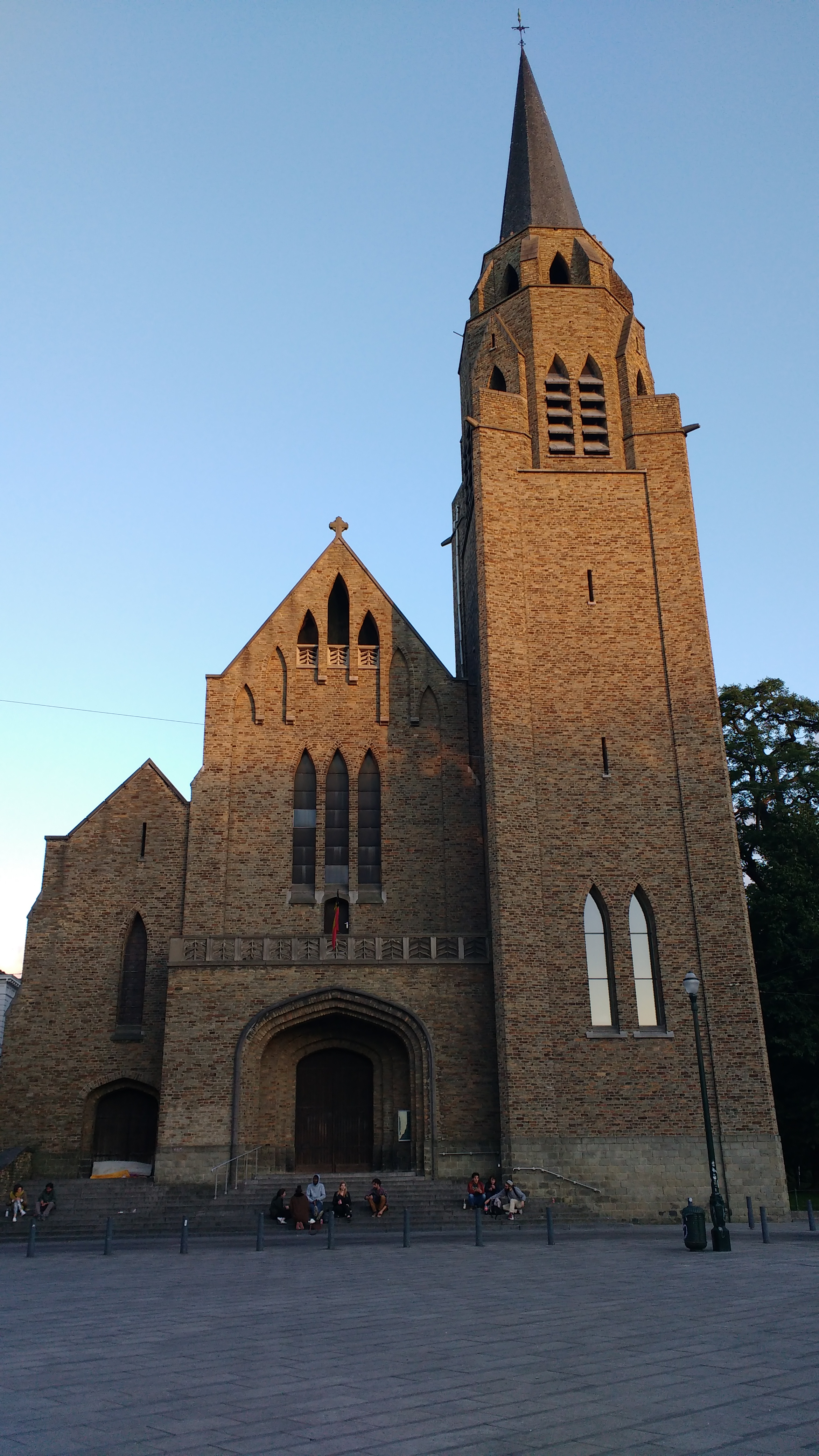 Church of the Holy Cross, in Brussels (Belgium).